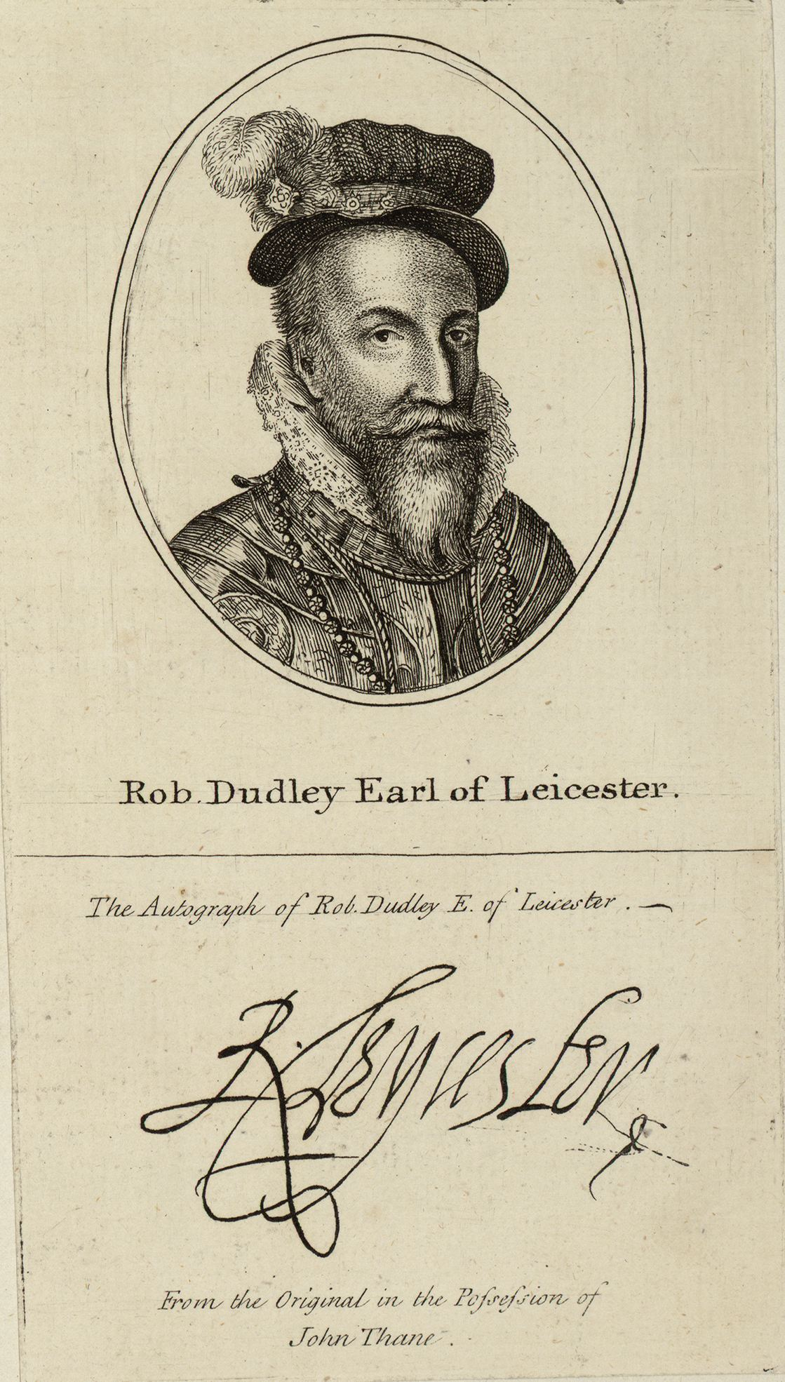 An image from a set of 8 extra-illustrated volumes of A tour in Wales by Thomas Pennant (1726-1798) that chronicle the three journeys he made through Wales between 1773 and 1776. These volumes are unique because they were compiled for Pennant's own library at Downing. This edition was produced in 1781. The volumes include a number of original drawings by Moses Griffiths, Ingleby and other well known artists of the period. Thomas Pennant (1726-1798)